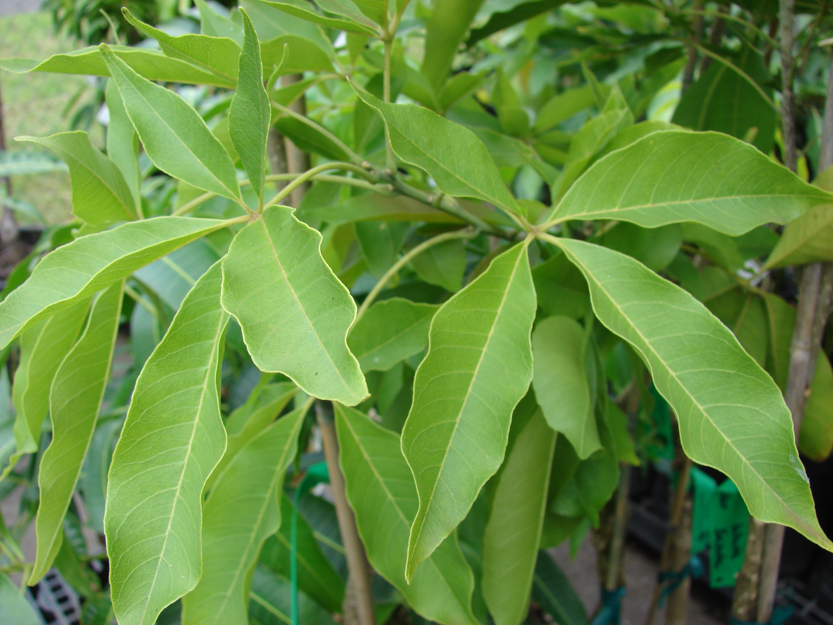 Casimiroa edulis (leaves). Location: Maui, Kula Ace Hardware and Nursery